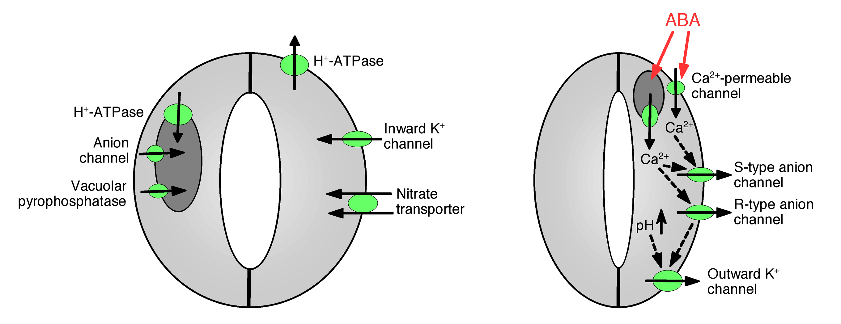 Overview on the mechanisms and ion channels involved in turgor regulation of guard cells, controling stomatal aperture in plants.